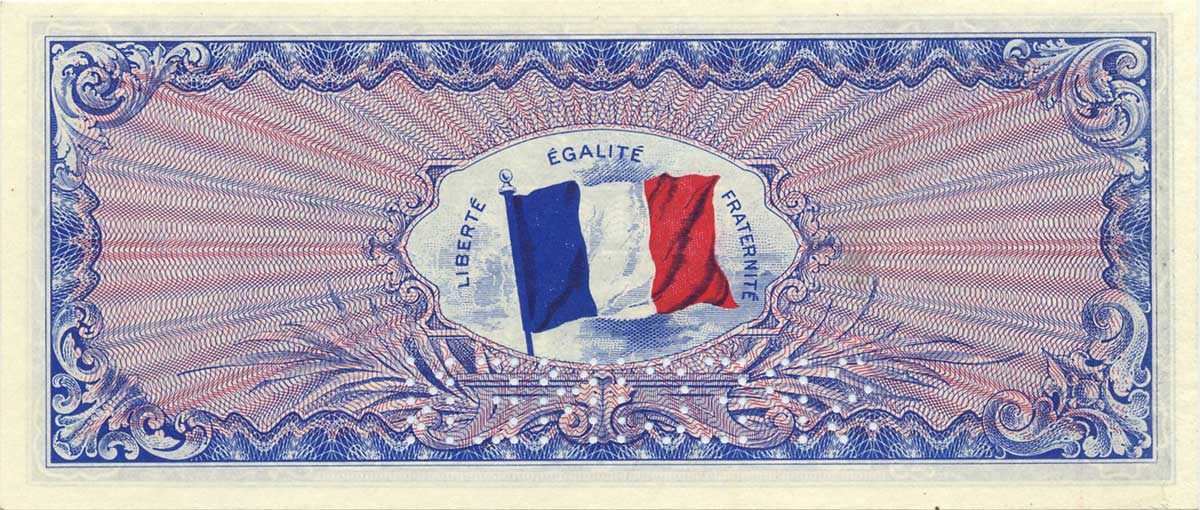 5000 francs au revers présentant le drapeau tricolore, 1944